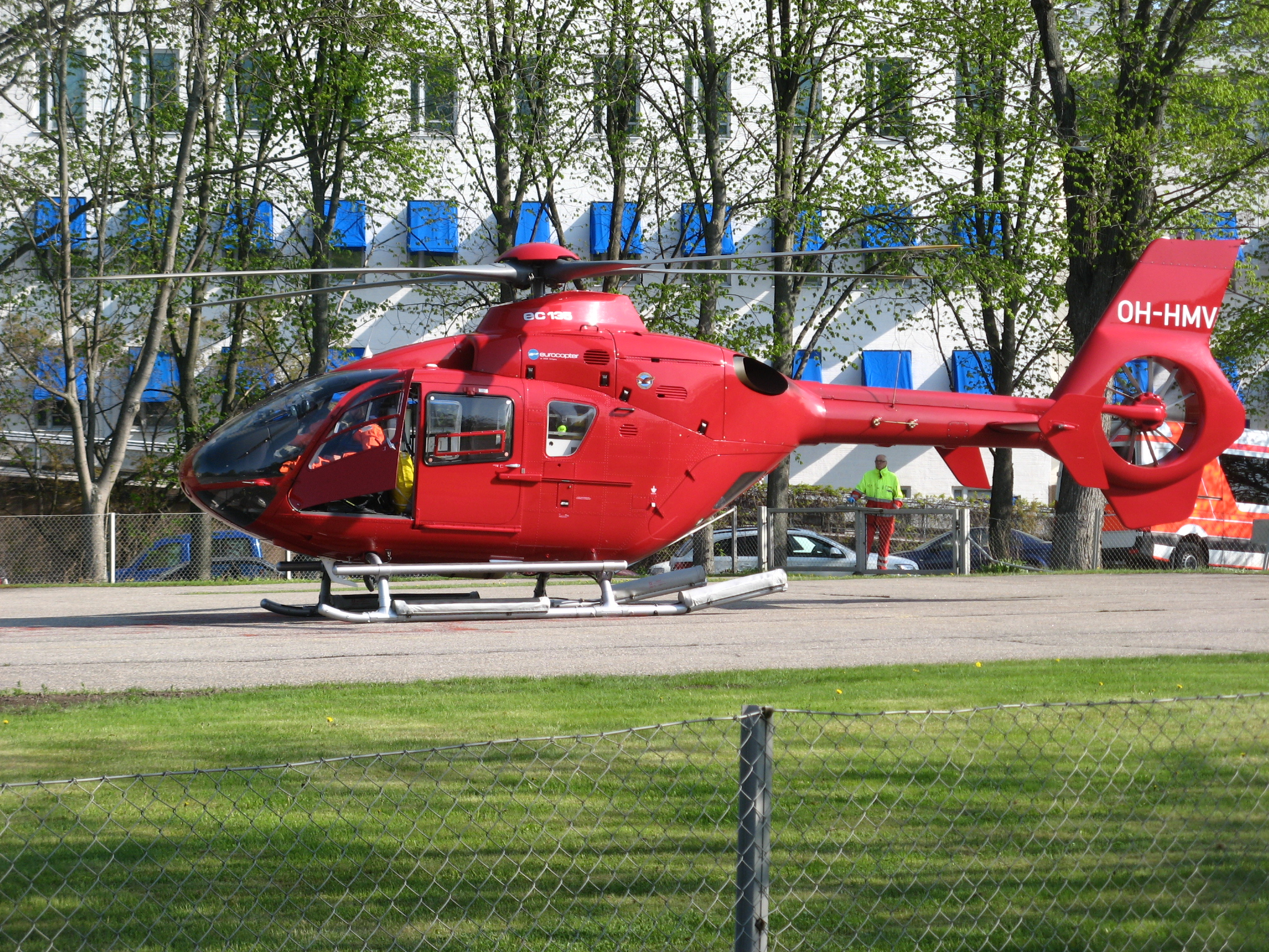 Rescue helicopter in front of Turku University Hospital.